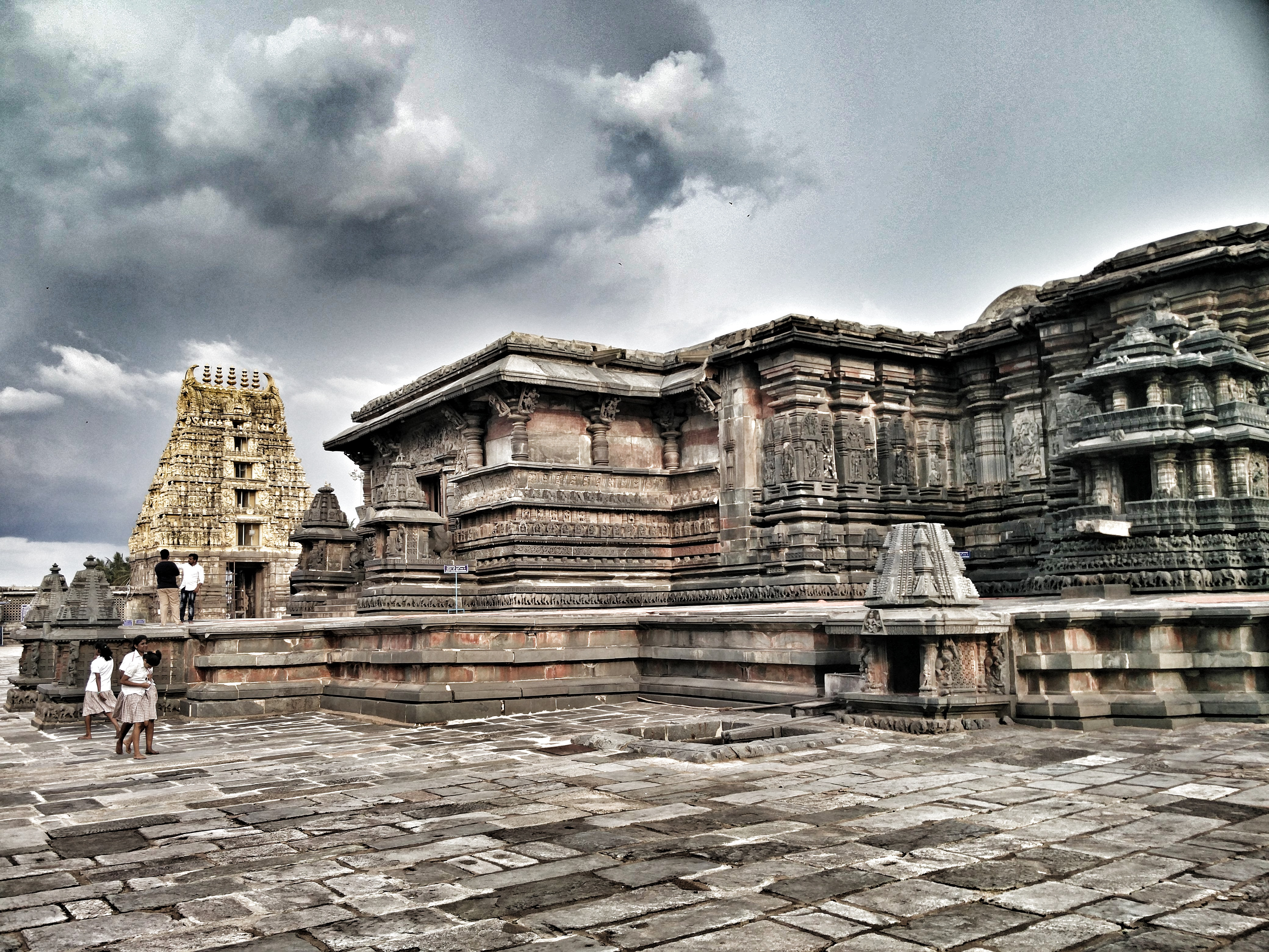 Chennakesava Temple Belur